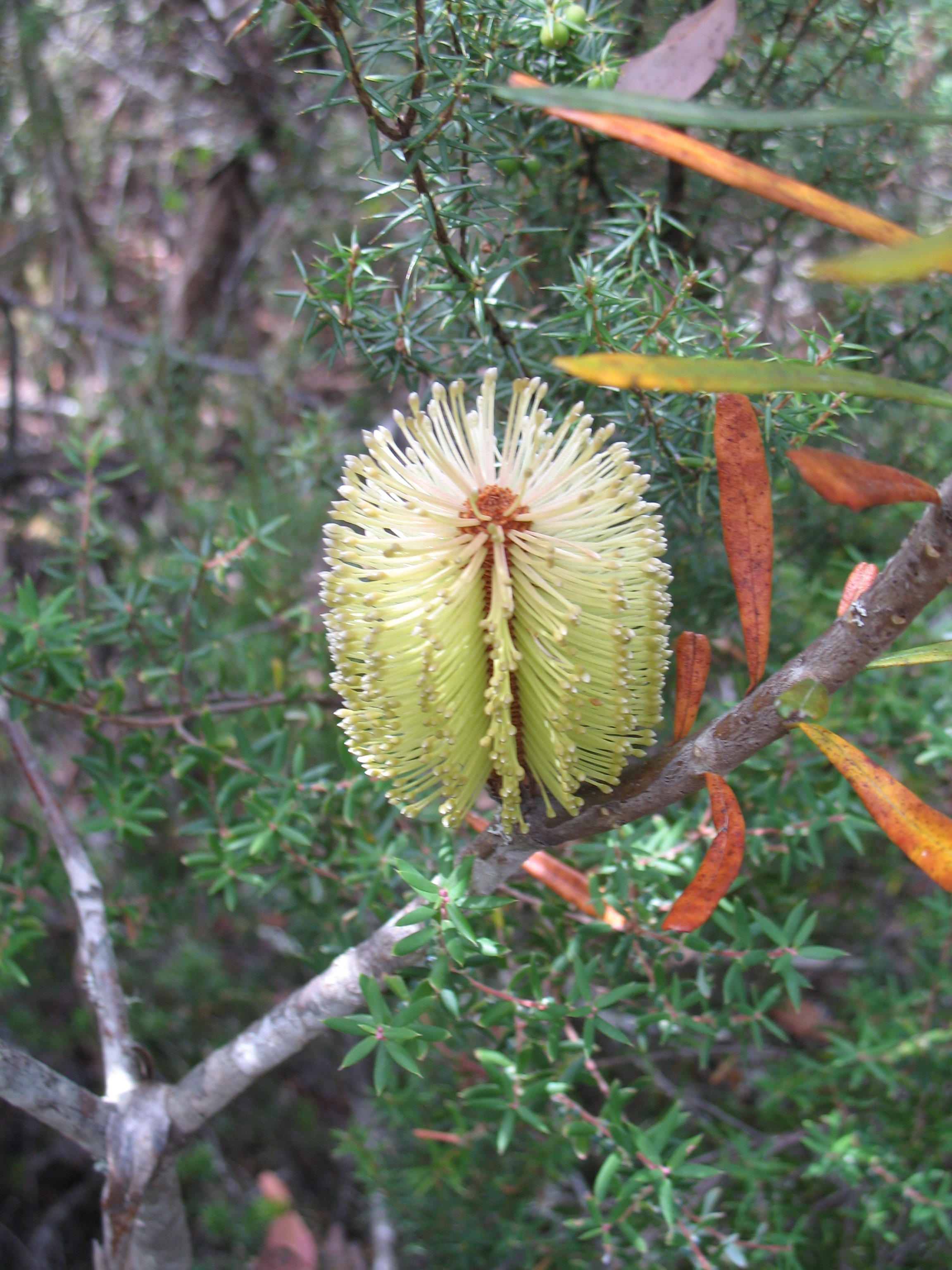 Banksia marginata inflorescence in the Cradle Mountain-Lake St Clair National Park.